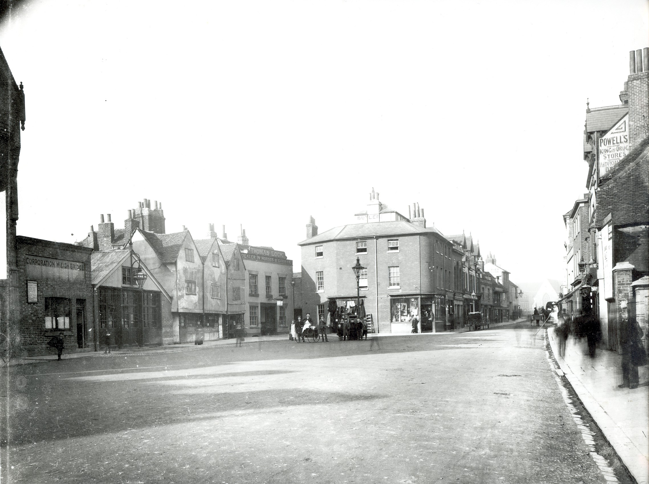 St. Mary's Butts, Reading, looking northwards, c. 1895. On the west side, Nos. 18 and 17 (corporation weighbridge); Nos. 16 and 15 (fire station); No. 14; No. 13; No. 12; No. 11 (Thomas Lock, carman and horse dealer); No. 10 (James Goodacre, pawnbroker). East side: the signs for No. 59 (John Powell and Son, chemists) and No. 57 (Allied Arms Inn) are legible. 1890-1899 : photograph by Walton Adams.